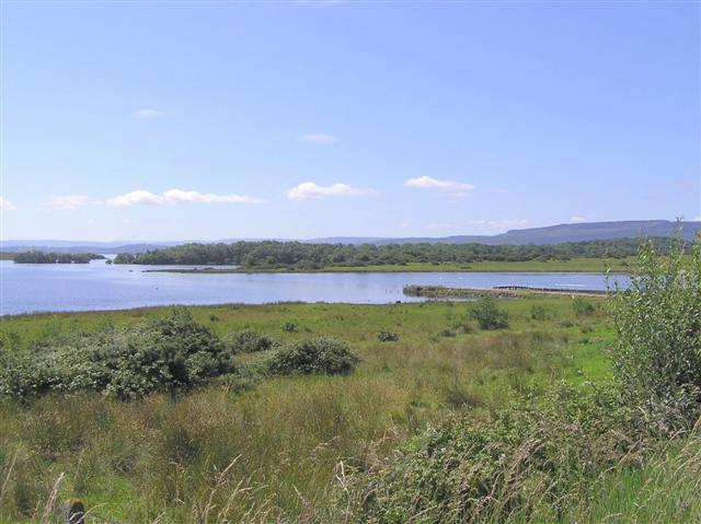 Boa Island, County Fermanagh. Overlooking Lough Erne from the shore. Subject Location; Irish: H 116 632 [100m precision]; WGS84: 54:31.0122N 7:49.3235W View Direction West-southwest (about 247 degrees)